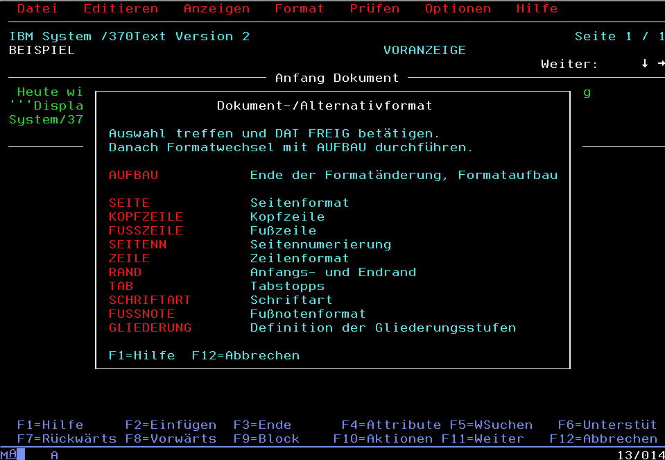 Screenshot IBM DisplayWrite/370